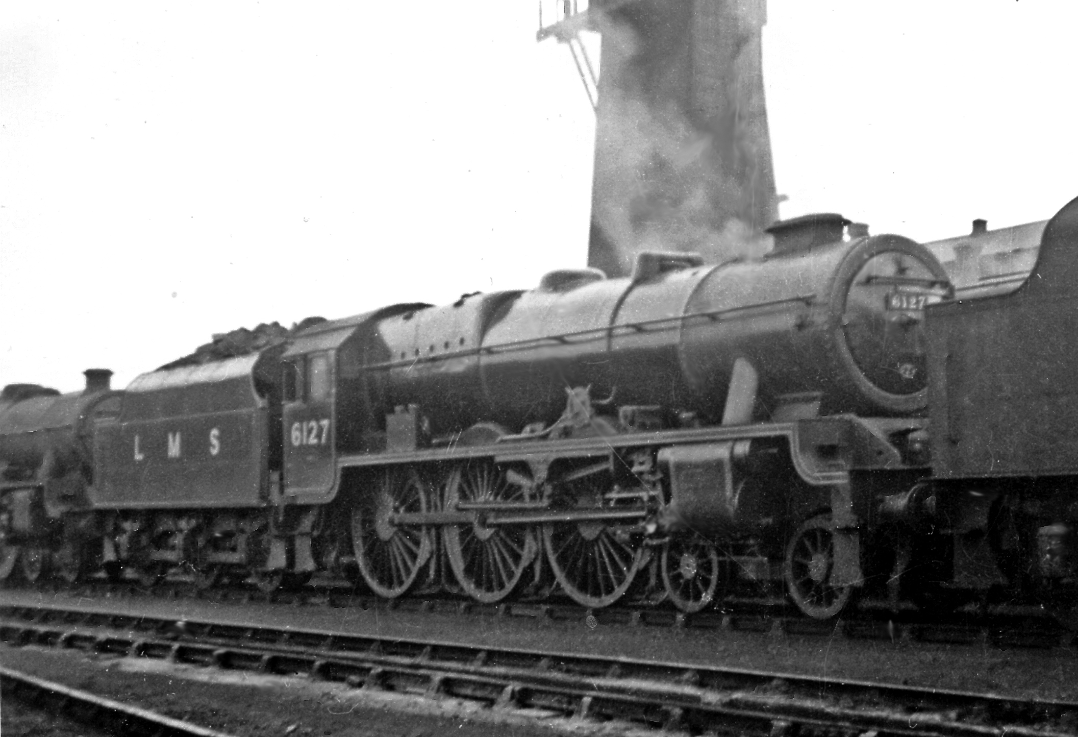 Rebuilt 'Royal Scot' at Camden Locomotive Depot. A pre-Nationalisation photograph of rebuilt 'Royal Scot' 7P 4-6-0 No. 6127 'The Old Contemptibles' (built 9/27 as 'Meteor', renamed 1935, rebuilt 8/44, withdrawn 12/62) is resting in a line-up near the coaling plant (seen behind) coaled up ready for its next express duty. (The rebuilds lacked smoke-deflectors at first). Camden was the principal Depot for expresses from Euston: coded 1B by the LMSR and by BR(LMR). having an allocation in 1946 of 60:- 17 4-6-2, 29 4-6-0 and 14 0-6-0T.